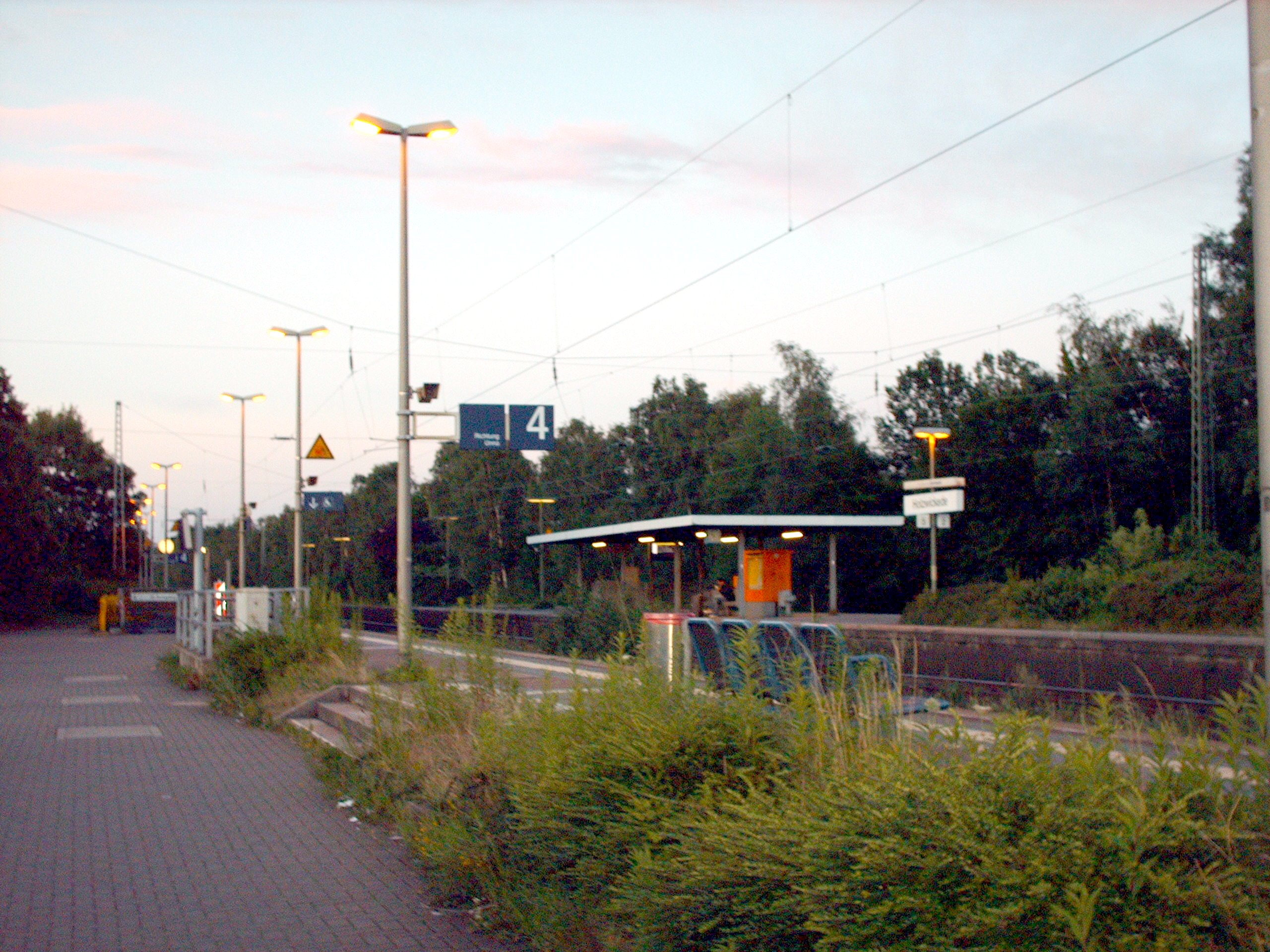 Holzwickede station, Holzwickede, Germany check usage